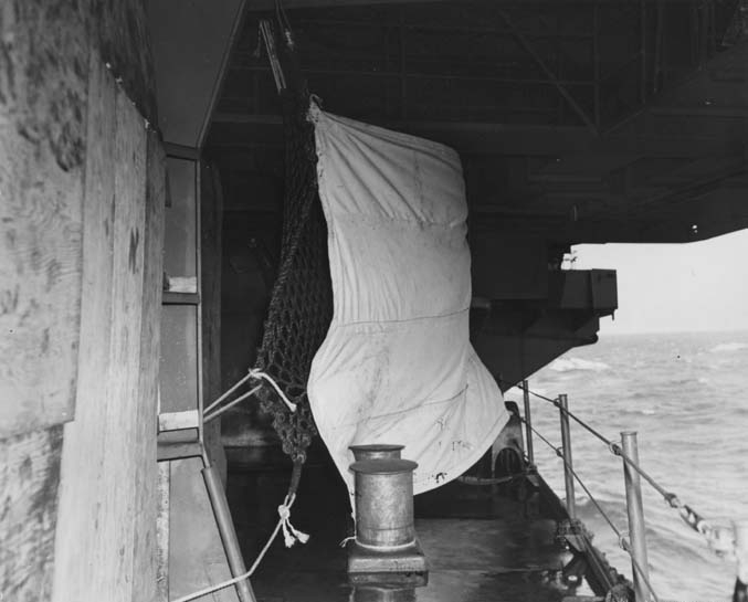 Temporary foresails made by cargo nets and wood were put on Intrepid's forecastle deck and the underside of the flight deck, after she lost steering control at February 17 night, when a torpedo struck and jammed her rudder. Photos were taken when Intrepid was four days before reaching Pearl Harbor at 24, so the copyright belongs to US navy; photo available online from Researcher@large, which only preserve formatting and comments copyright, so there should be no permission problem. Photo was cropped to remove caption.